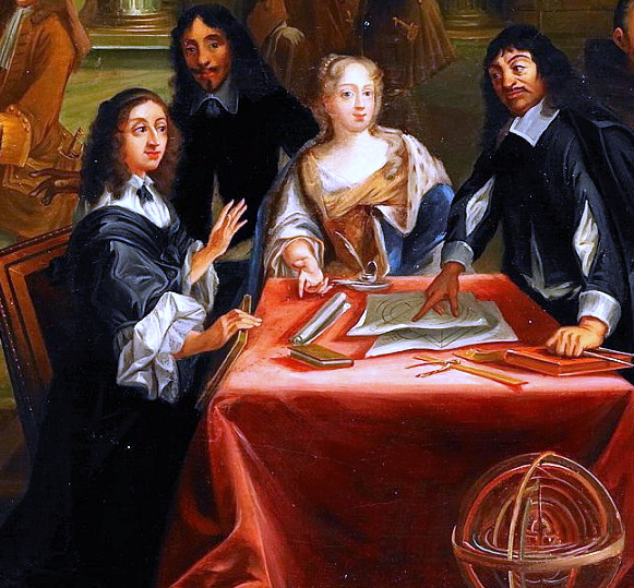 Queen Christina of Sweden (left) and René Descartes (right). detail